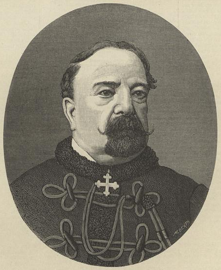 The Viscount of Sagres, 1885